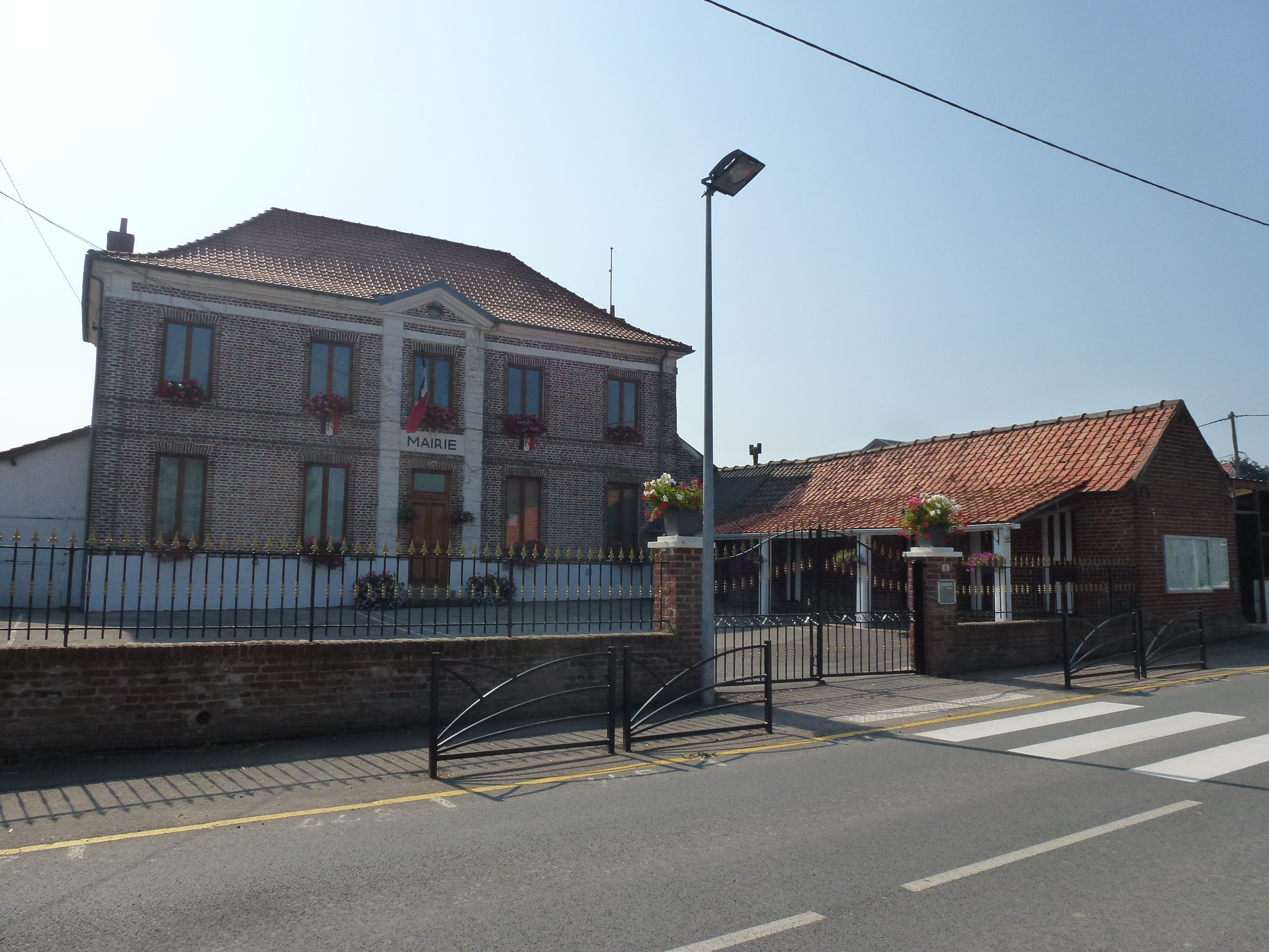 Bonningues-lès-Ardres (Pas-de-Calais) mairie